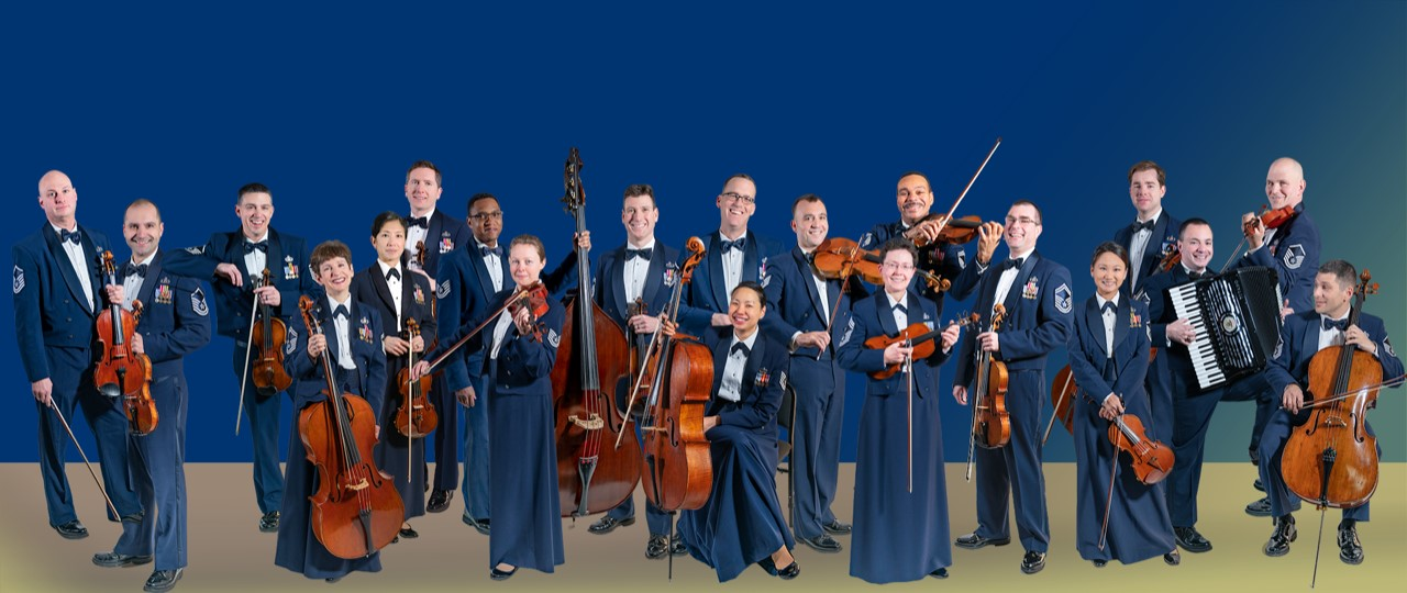 Official picture of The U.S. Air Force Strings. Stationed at Joint Base Anacostia-Bolling in Washington, D.C., it is the official string ensemble of the United States Air Force. U.S. Air Force graphic created by Master Sgt. Joshua Kowalsky.